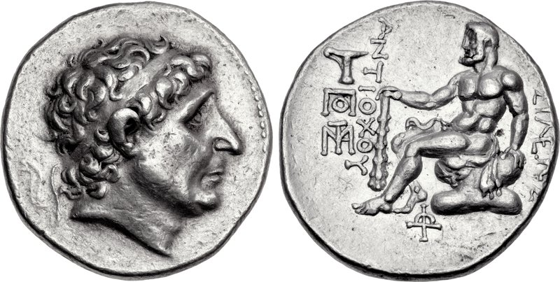 SELEUKID KINGS of SYRIA. Antiochos II Theos. 261-246 BC. AR Tetradrachm (28mm, 17.08 g, 11h). Kyme mint. Diademed head right / Herakles seated left on rock, lion's skin draped over rock, holding club set on ground; to outer left, cup above two monograms; monogram in exergue. SC 503; HGC 9, 241c. Good VF. Ex Gemini III (9 January 2007), lot 236.